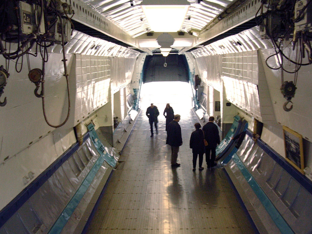 Cargobay_antonov_an_22 in speyer, germany (museum)